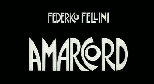 Amarcord, opening title